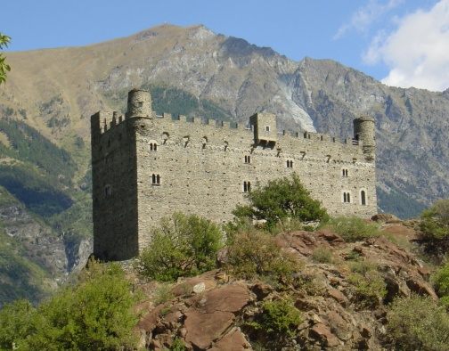 Castello di Ussel, Chatillon, Aosta valley, Italy